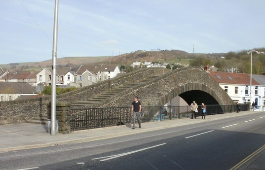 The Old Bridge, Pontypridd, Wales